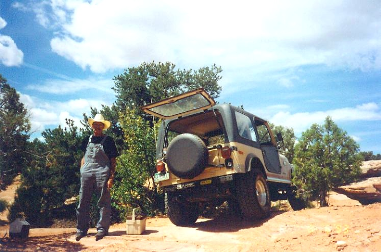 Jeep safari near Moab, Utah, USA